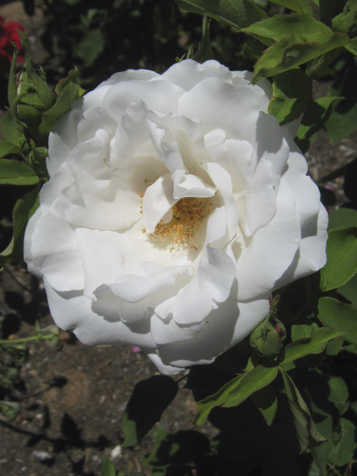 Rose 'Frau Karl Druschke', Hybrid Tea by Peter Lambert 1901; photographed in the Nieuwesteeg Heritage Rose Garden, Maddingley Park, Bacchus Marsh, Victoria